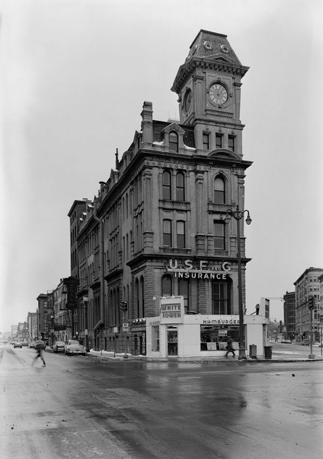 Gridley Building — in Syracuse, New York. 1962 image from the HABS—Historic American Buildings Survey of New York, (border cropped).